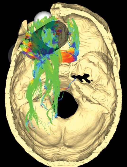 "A view of the interior of the Gage skull showing the extent of fiber pathways intersected by the tamping iron in a sample subject (i.e. one having minimal spatial deformation to the Gage skull)." (Cropped from